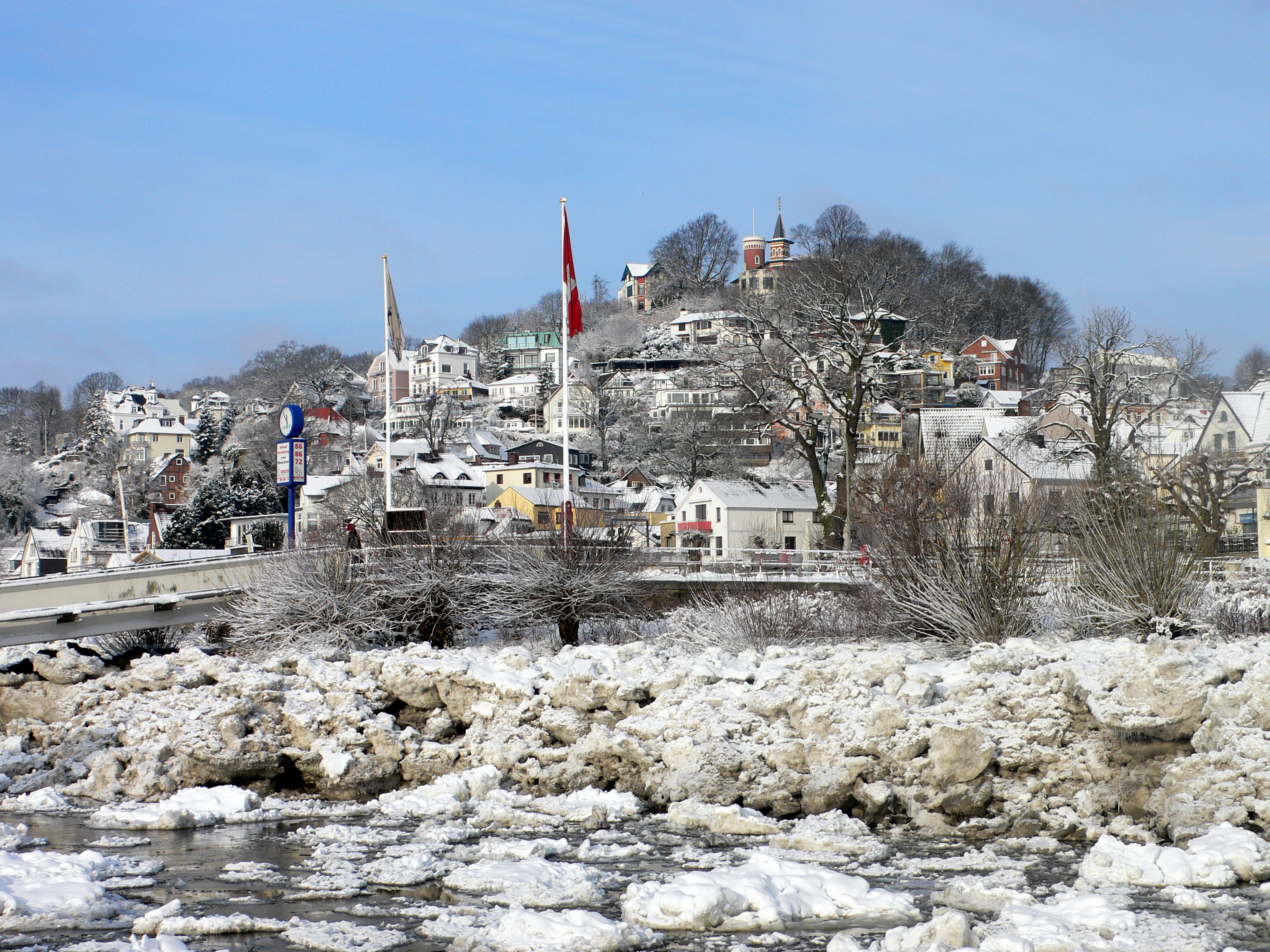 Hamburg-Blankenese with the Suellberg in Winter